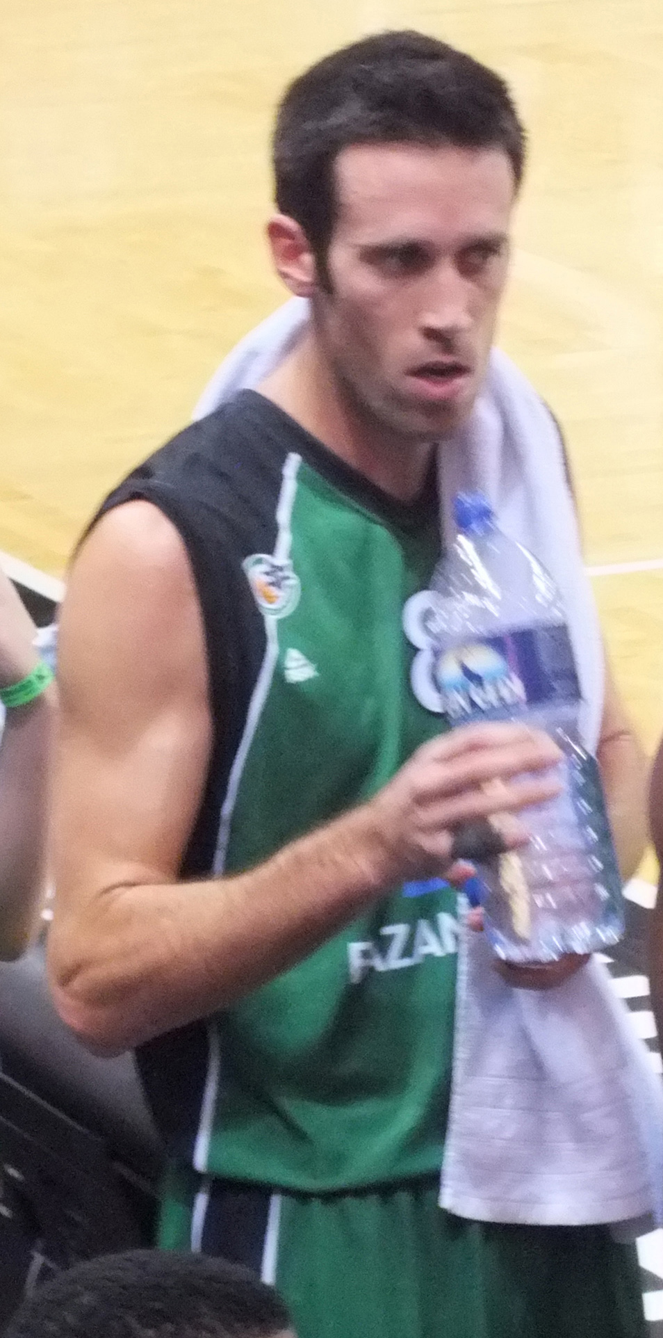 Player for the Greens in the 2013/14 season.